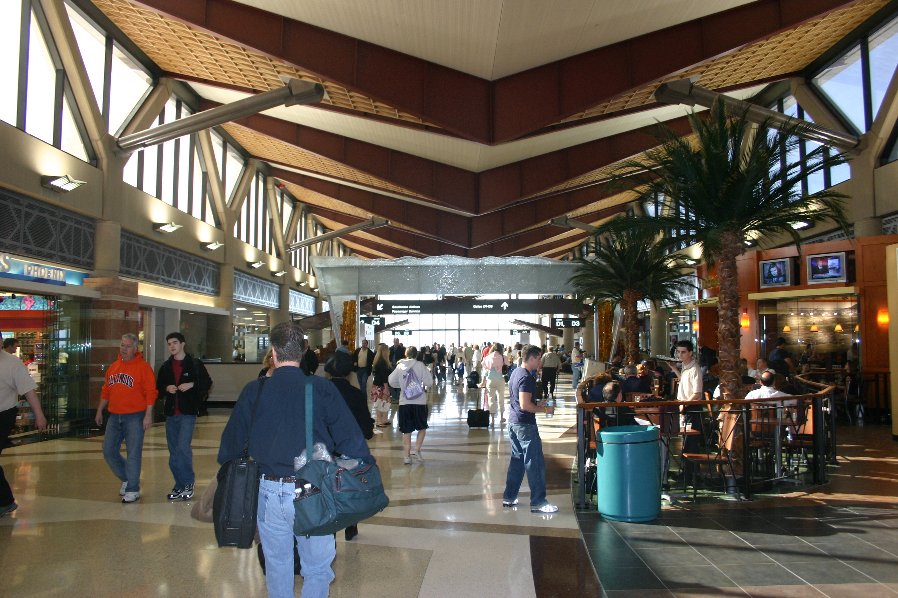 Inside the Terminal 4 S2 Concourse at Phoenix Sky Harbor Airport